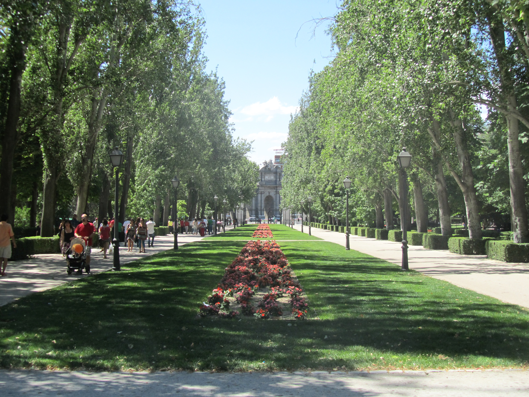 Avenida de México, Parque del Buen Retiro, Madrid, looking towards Puerta de Alcalá